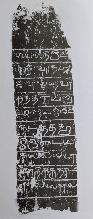 Kantalay pillar inscriptions of Gajabahu II